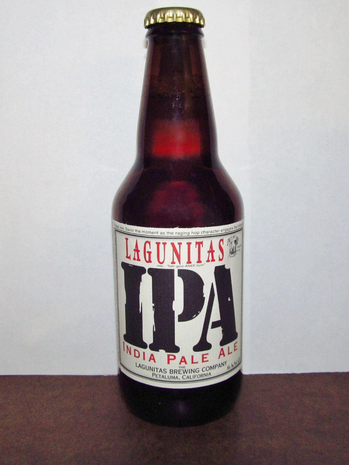 August 6, 2015 is National IPA Day!